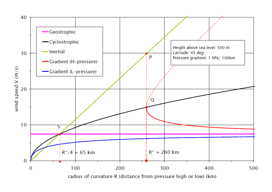 Variation of wind speed in balanced flows with radius of curvature